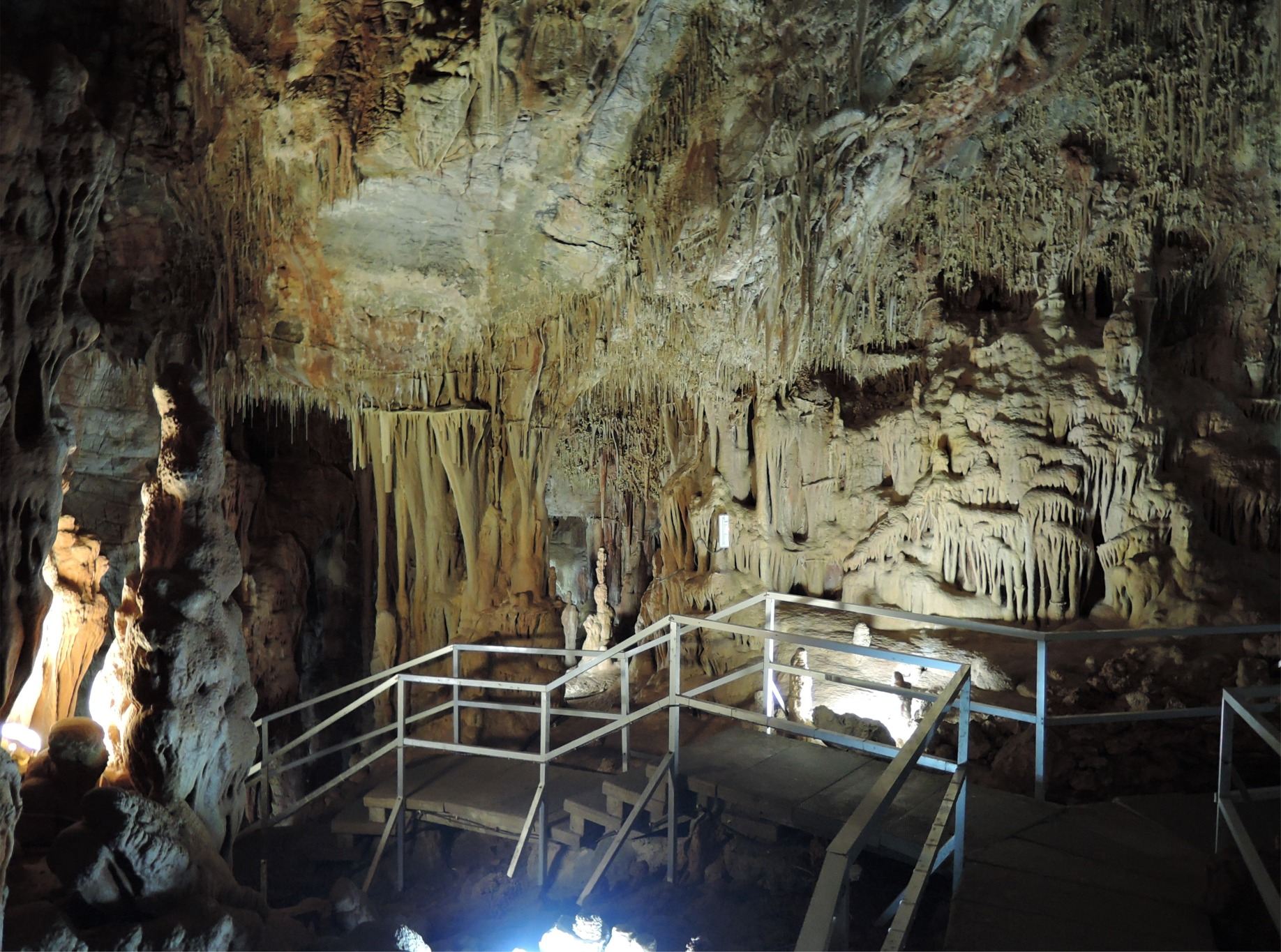 The Petralona cave, Chalkidiki, Greece.